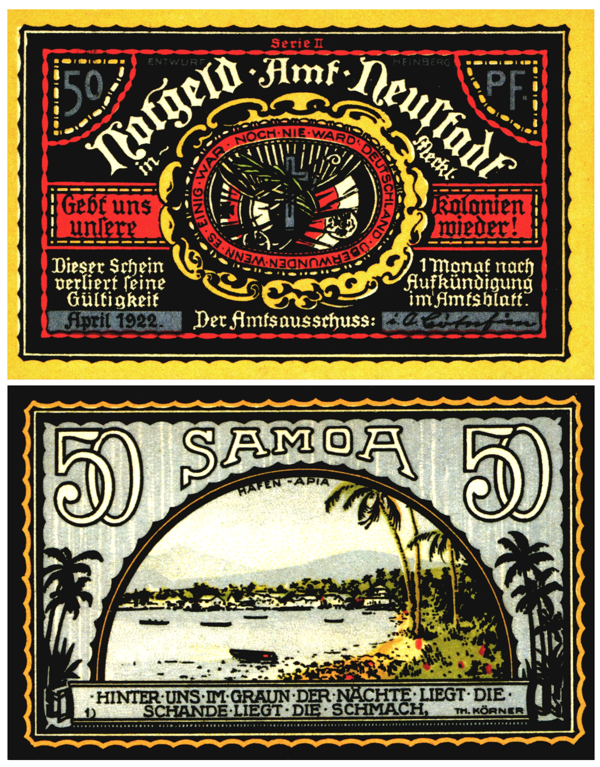 50 Pfennig "Notgeld" banknote (1922) of Neustadt in Mecklenburg, today Neustadt-Glewe. The text coplains about the loss of the colony German Samoa after the Treaty of Versailles. Size: 61 mm x 97 mm.